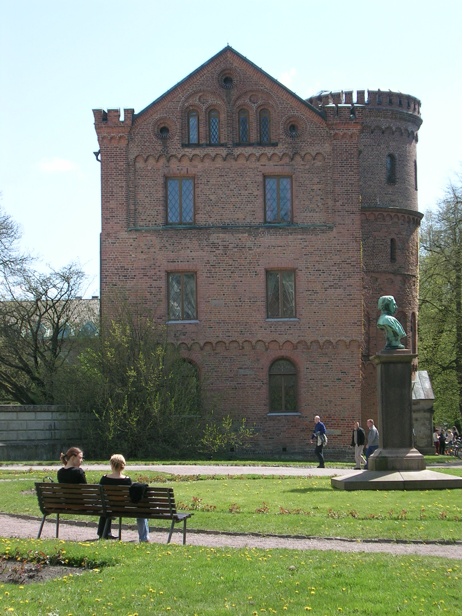 Kungshuset in the City of Lund, Sweden.